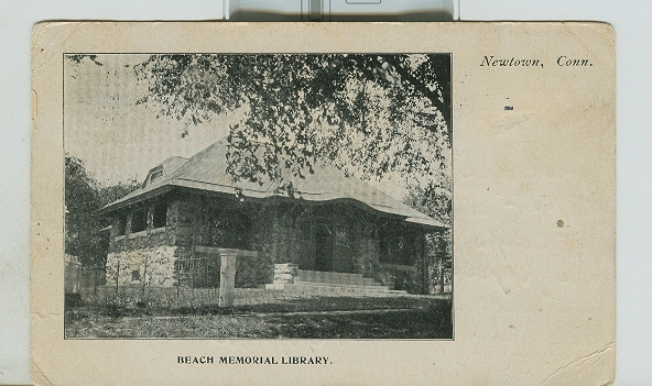 Postcard: Beach Memorial Library, Newtown, Connecticut, postmarked 1910 Description: "Beach Memorial Library, Newtown, Connecticut. Pre-Linen. Used 1910"